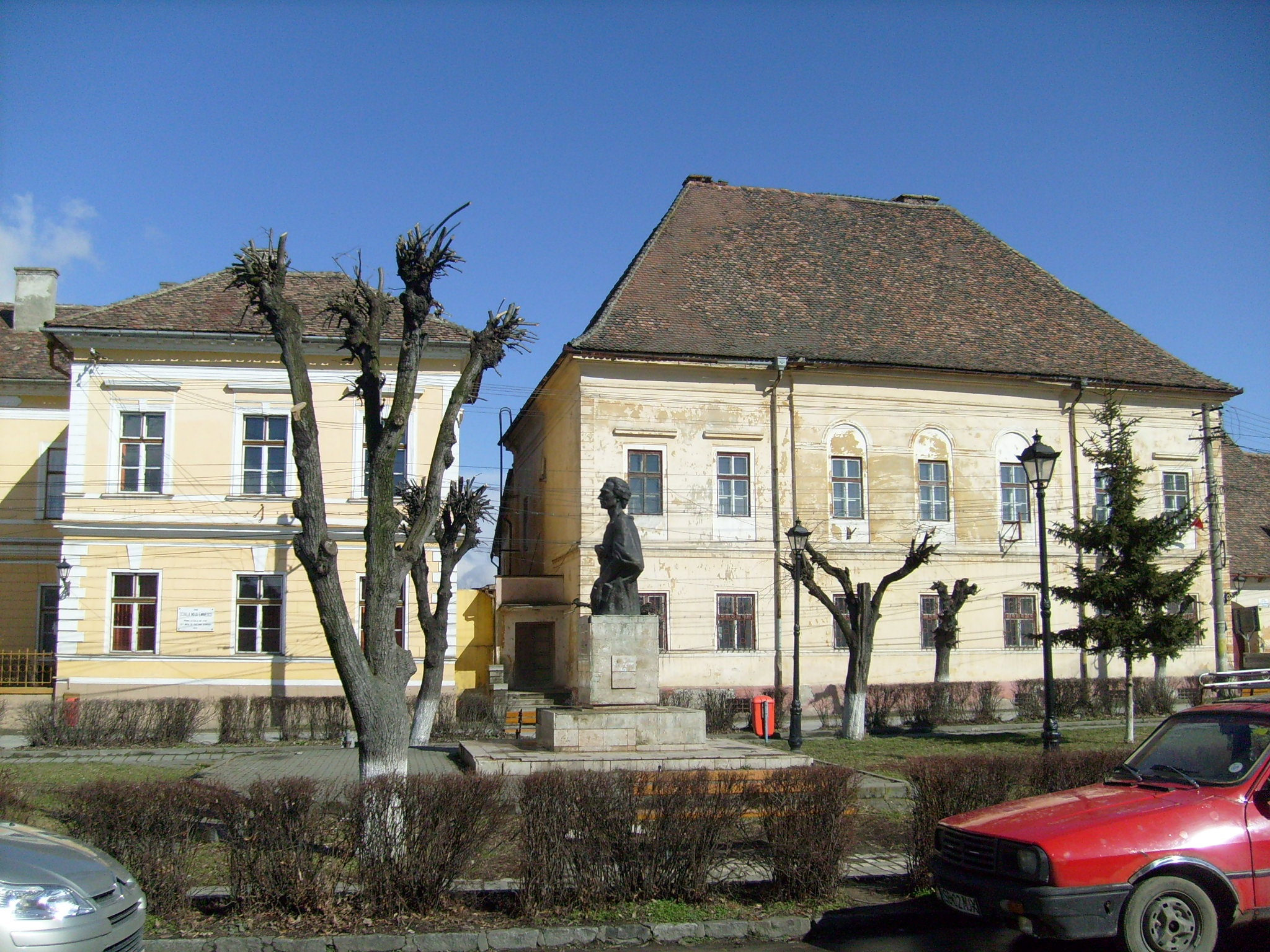 The first Romanian School in Medias.